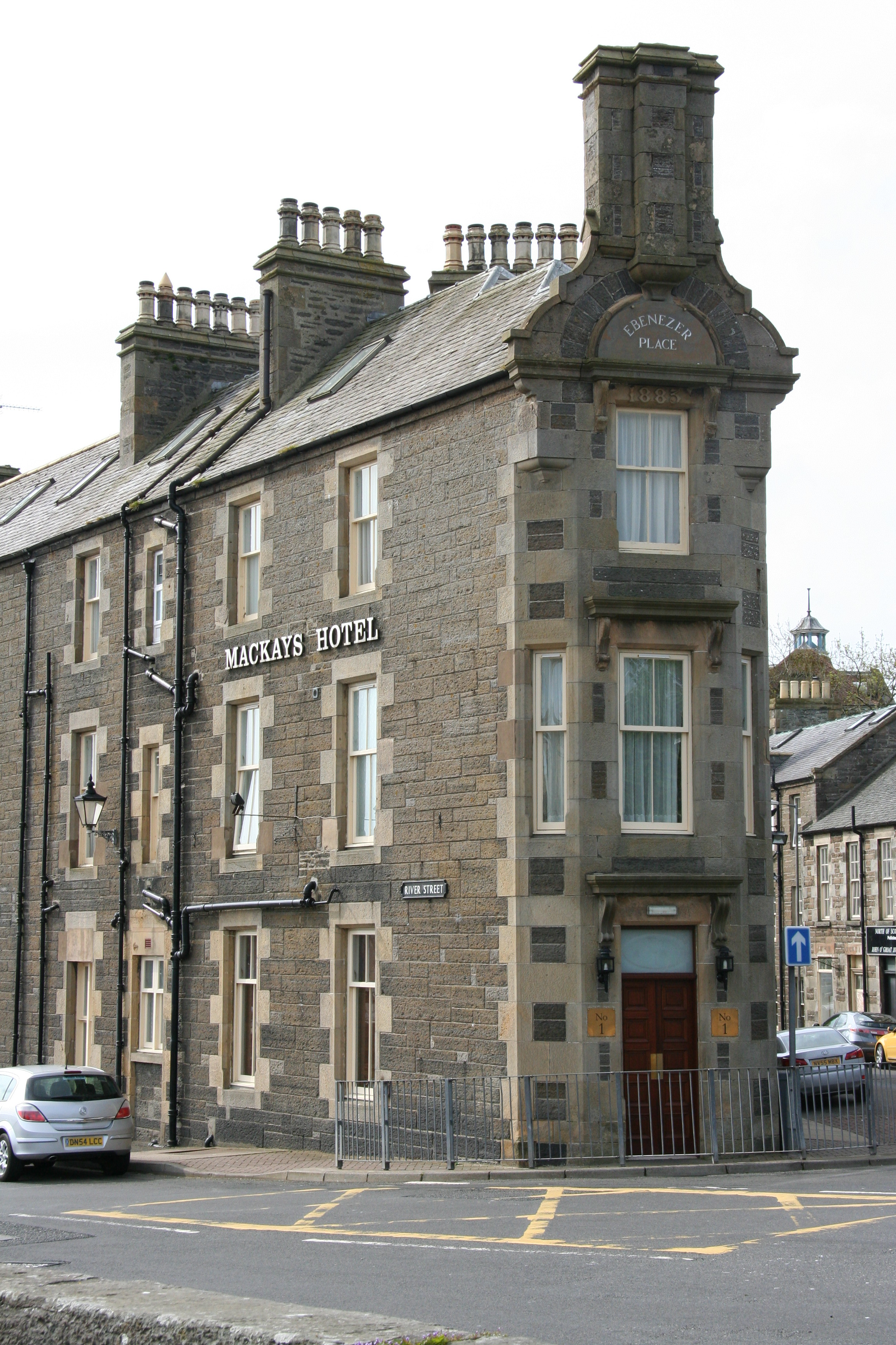 Ebenezer Place, thew world's shortest street in Wick, Scotland